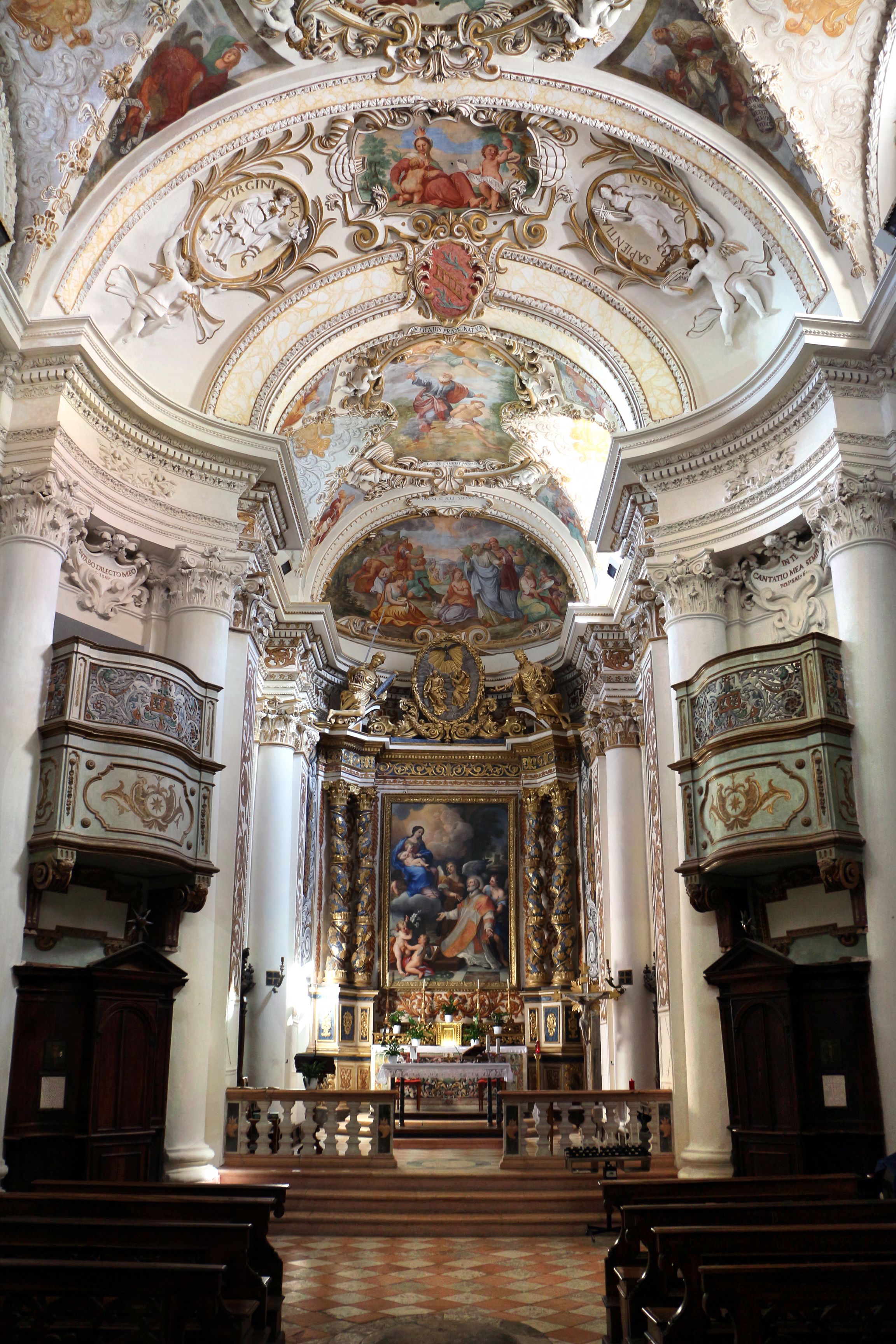 San Filippo Neri (Cingoli)